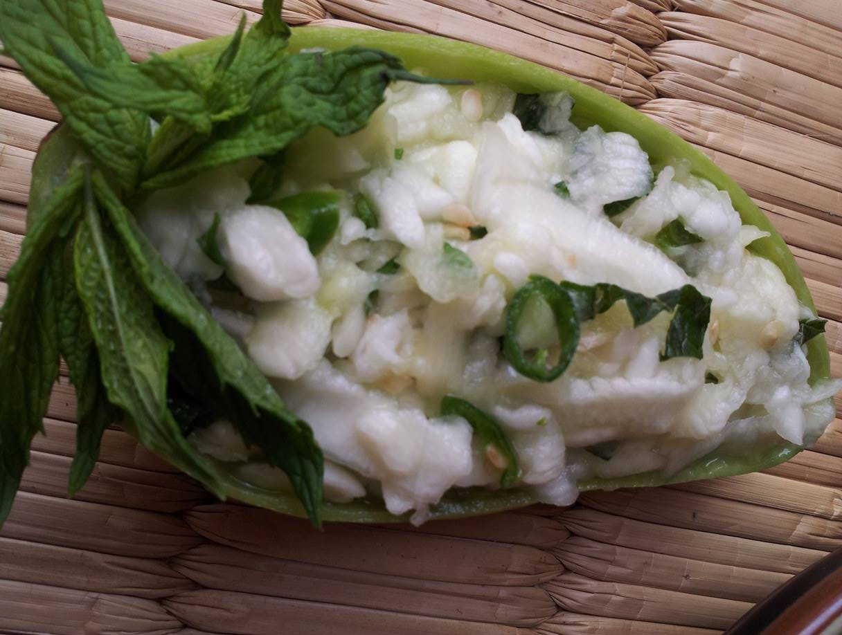 Heinou Singju, a type of singju made with mango fruit. its a veggie type.